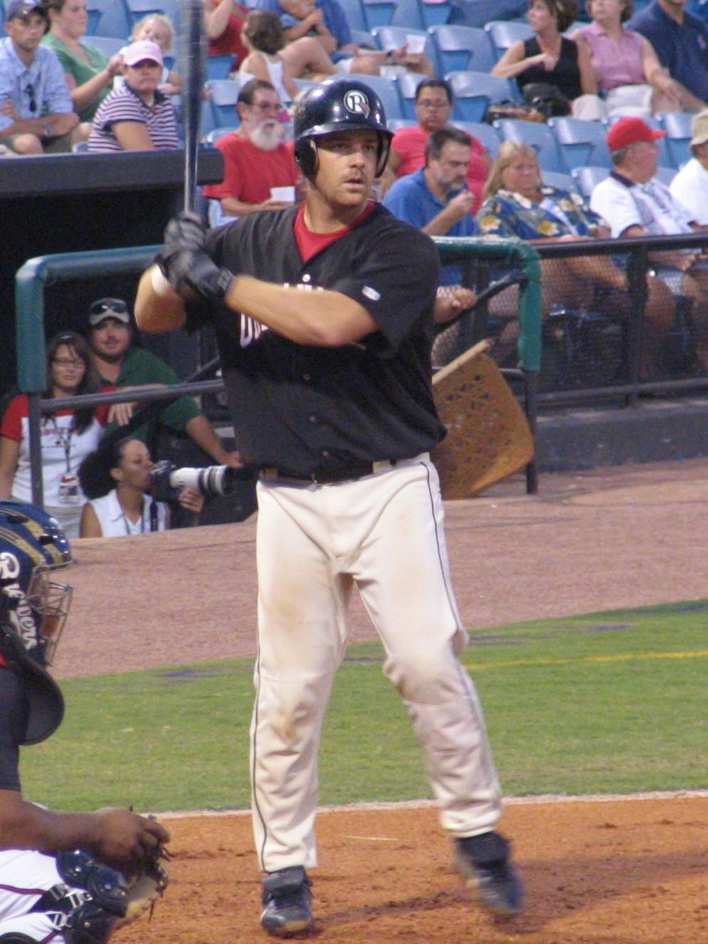 Keith McDonald (right) bats for the Oklahoma RedHawks during a 2005 game